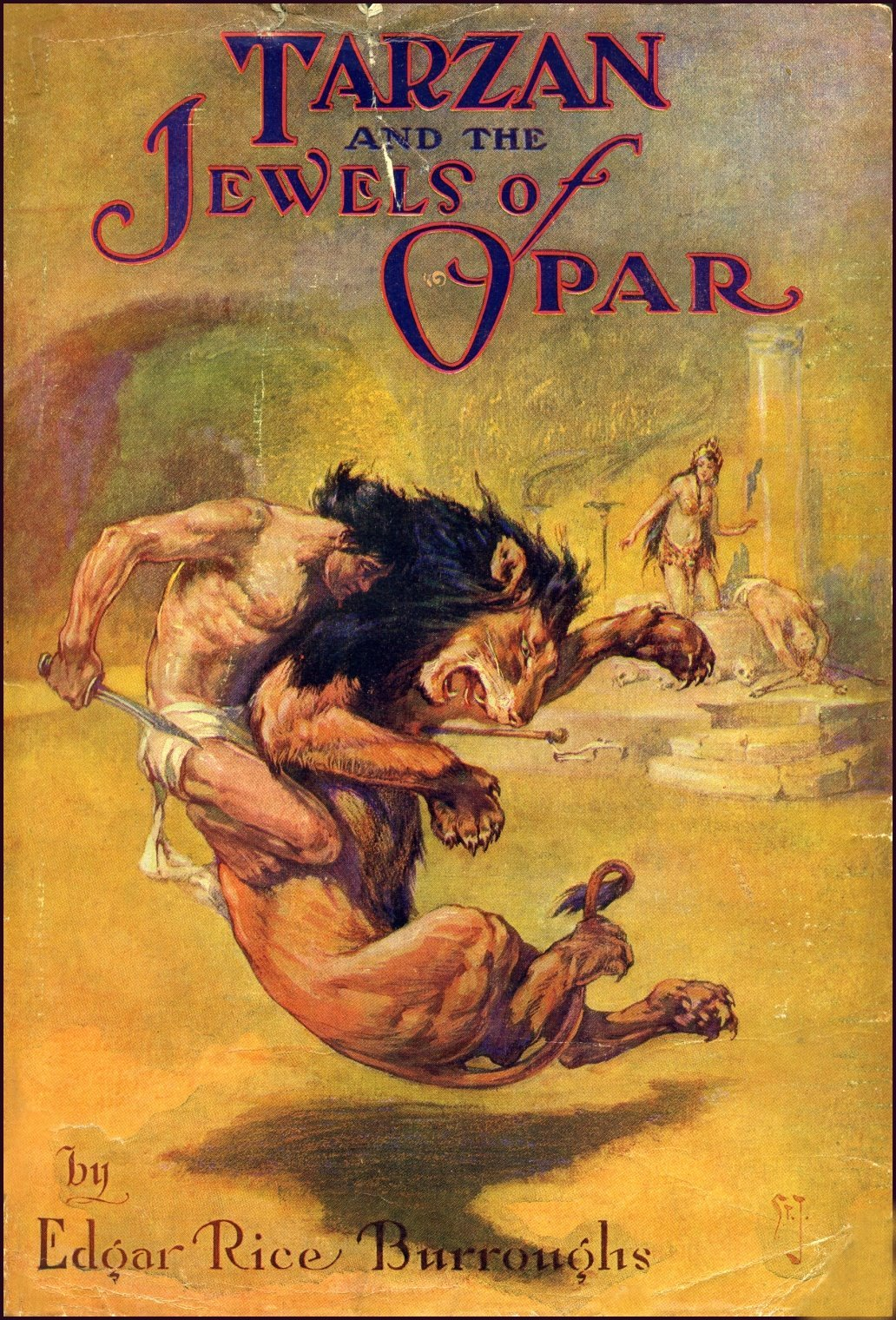 Dust-jacket illutration for Tarzan and the Jewels of Opar by Edgar Rice Burroughs for illustration of an article